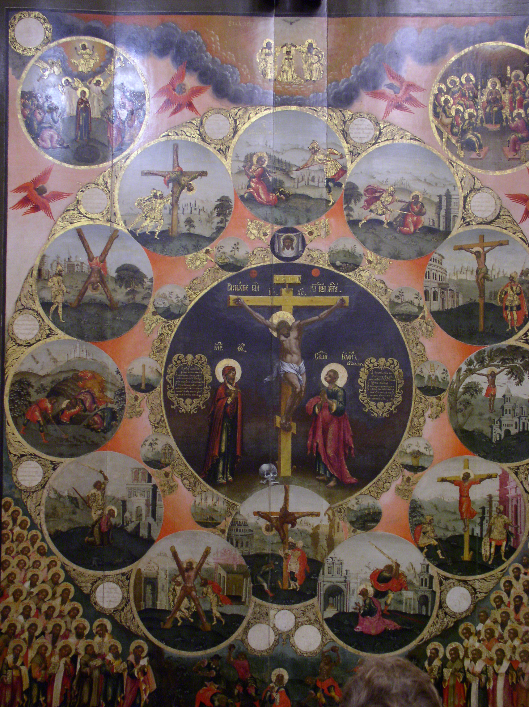 Moscow Kremlin museums exhibitions. Moscow, Russia.